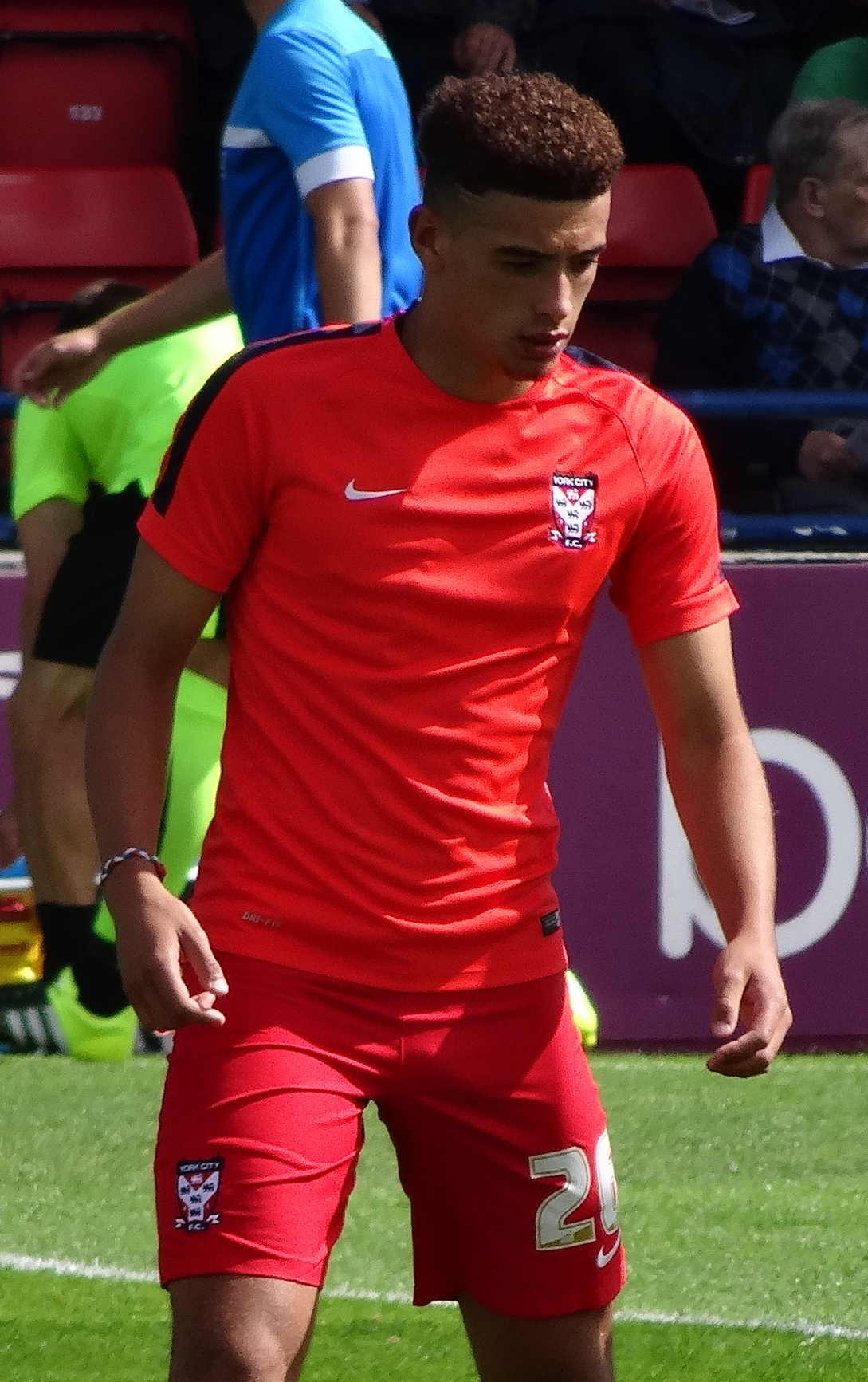 Ben Godfrey warming up for York City against Hartlepool United at Bootham Crescent, York on 15 August 2015